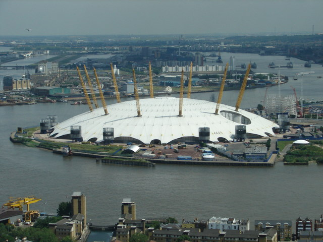 O2 Arena, near to Blackwall Tunnel, Greenwich, Great Britain. Link View from a handy office building nearby.